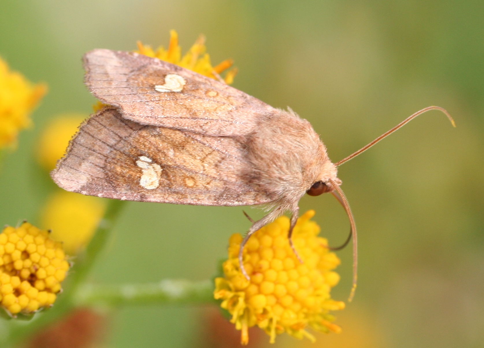 Amphipoea_fucosa (not 100% sure, no genitalia dissection) 1 August 2006 IJmuiden, the Netherlands